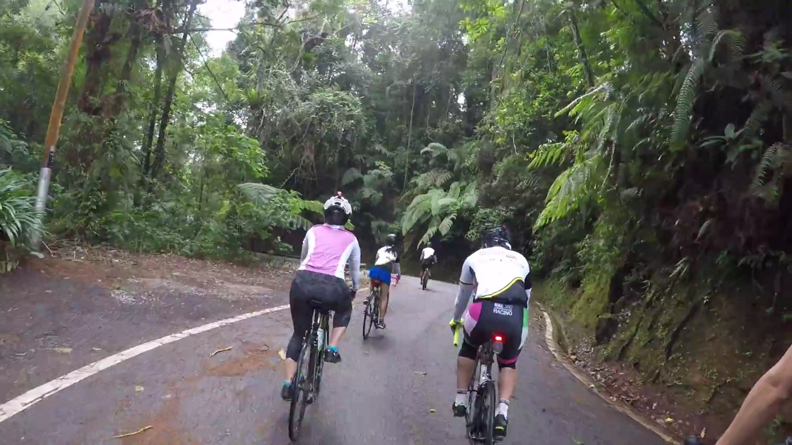 Cycling in Fraser's Hill during July 2017